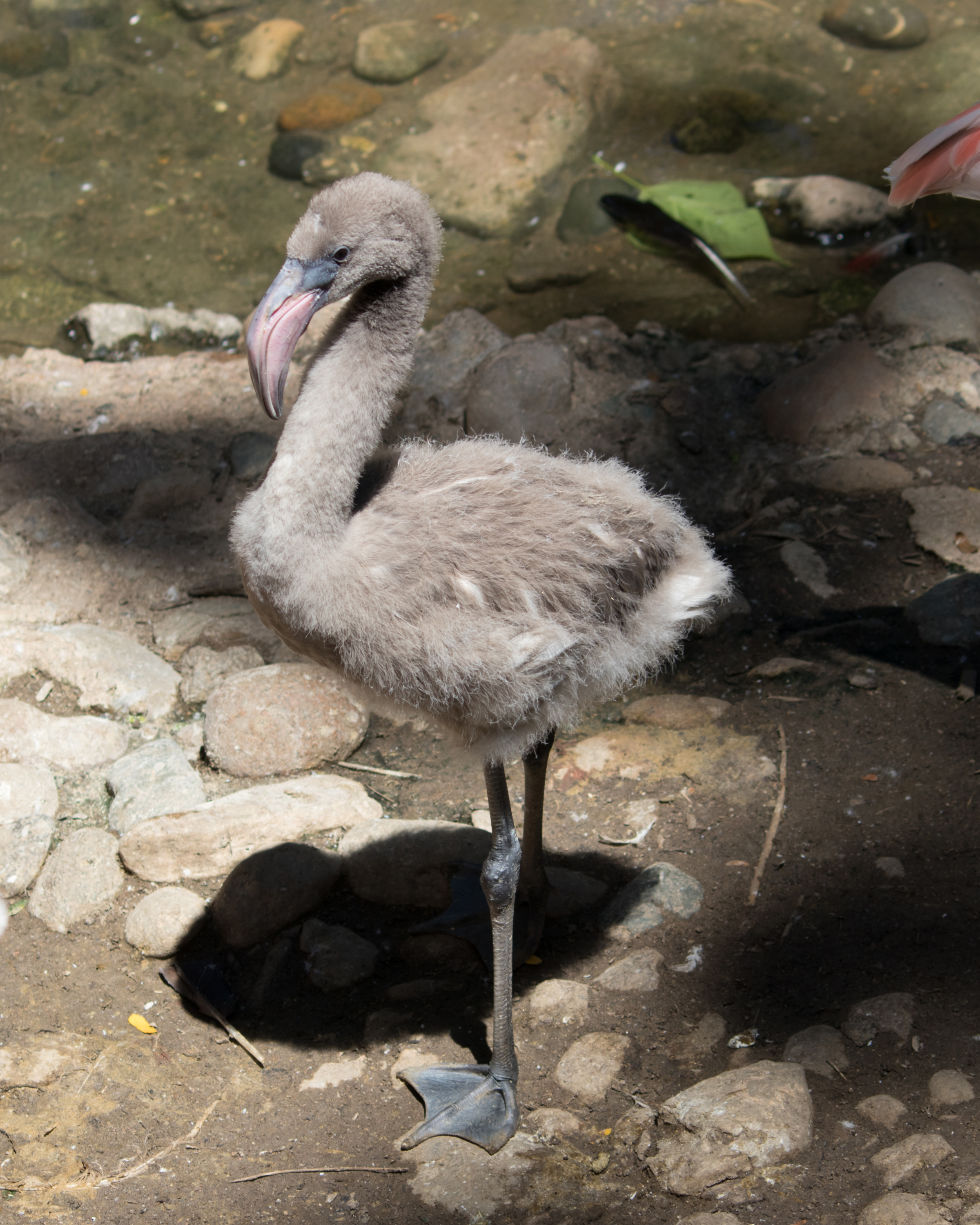 Sub-adult Phoenicopterus roseus - taken at the Cincinnati zoo